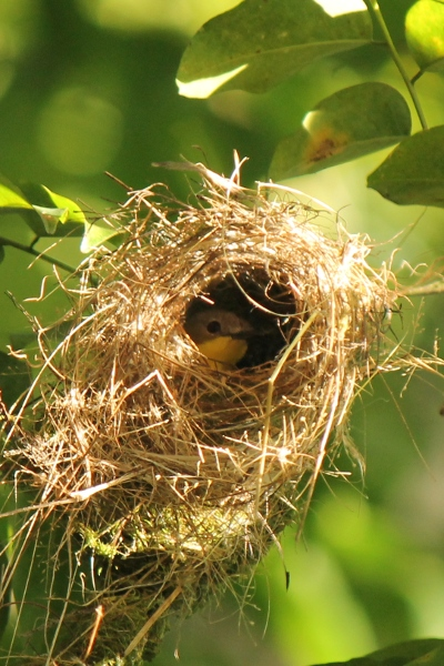 Golden-bellied Gerygone (Gerygone sulphurea) at Manado, North SulawesiBahasa Indonesia: Remetuk laut (Gerygone sulphurea) di Manado, Sulawesi Utara